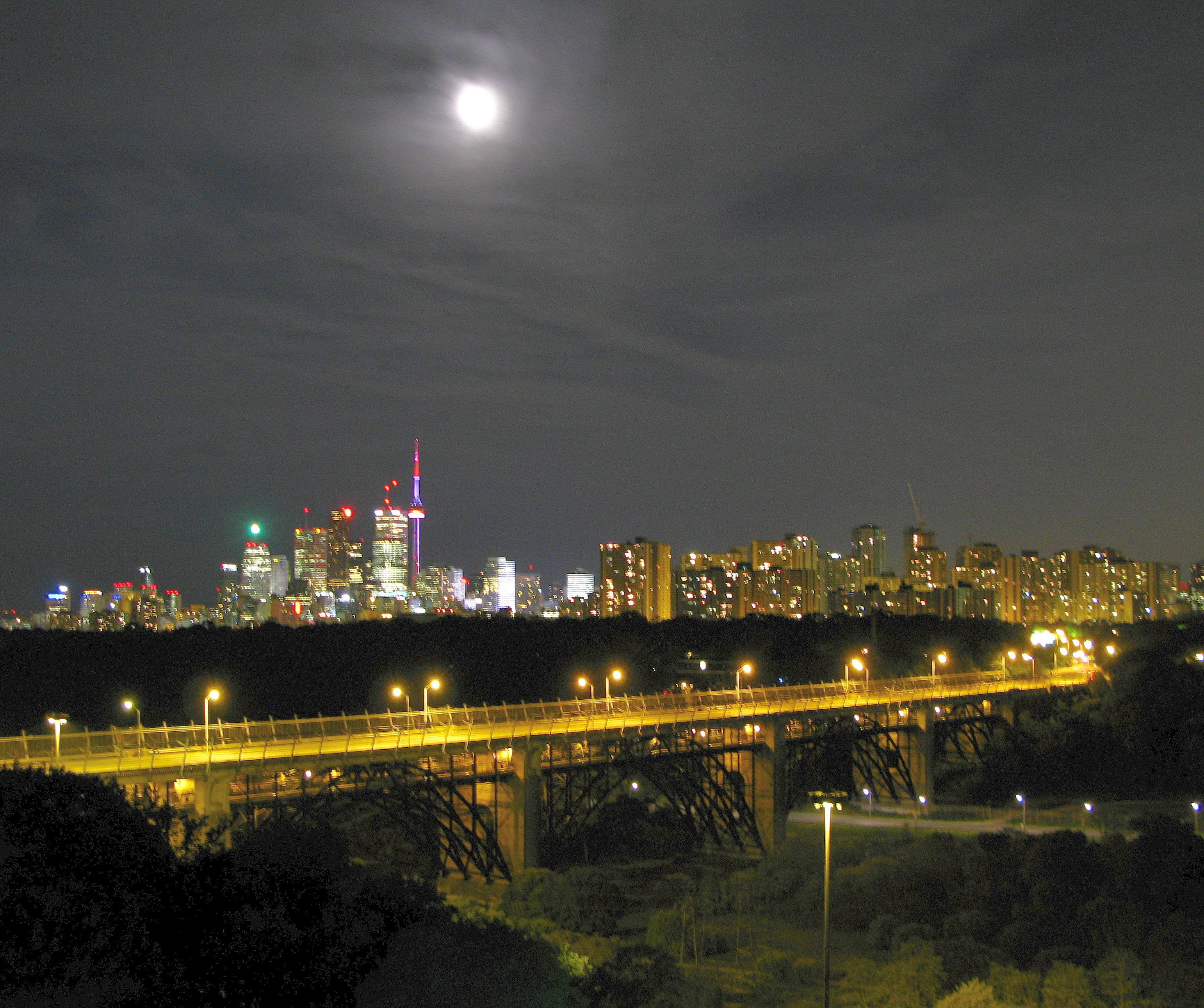 Prince Edward Viaduct at night.